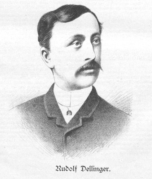 Portrait of Rudolf Dellinger (1857-1910), Austrian composer